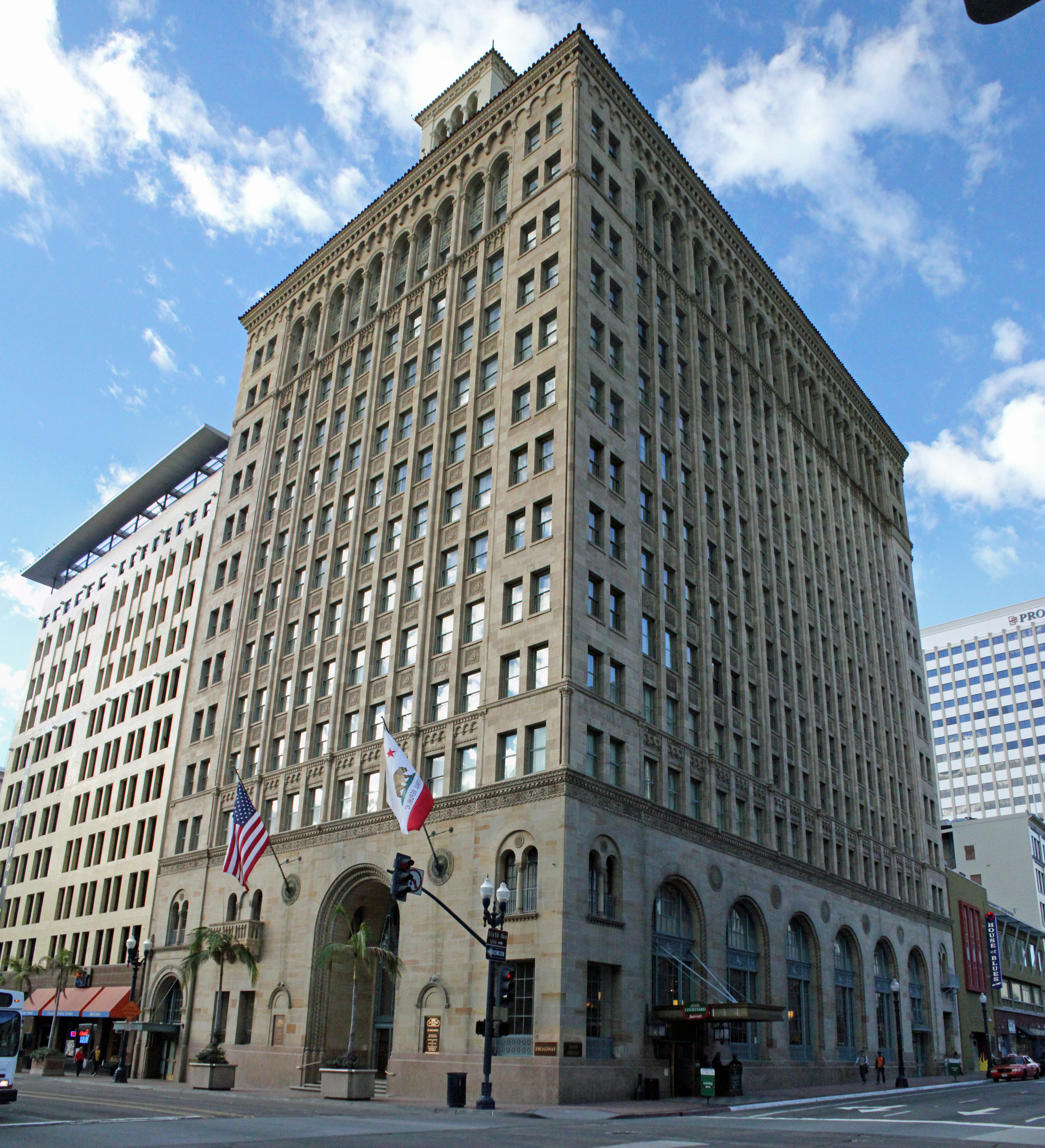 The San Diego Trust and Savings Bank Building, located at 530-540 Broadway in San Diego, California. Listed on the National Register of Historic Places, the building now serves as a Marriott hotel.